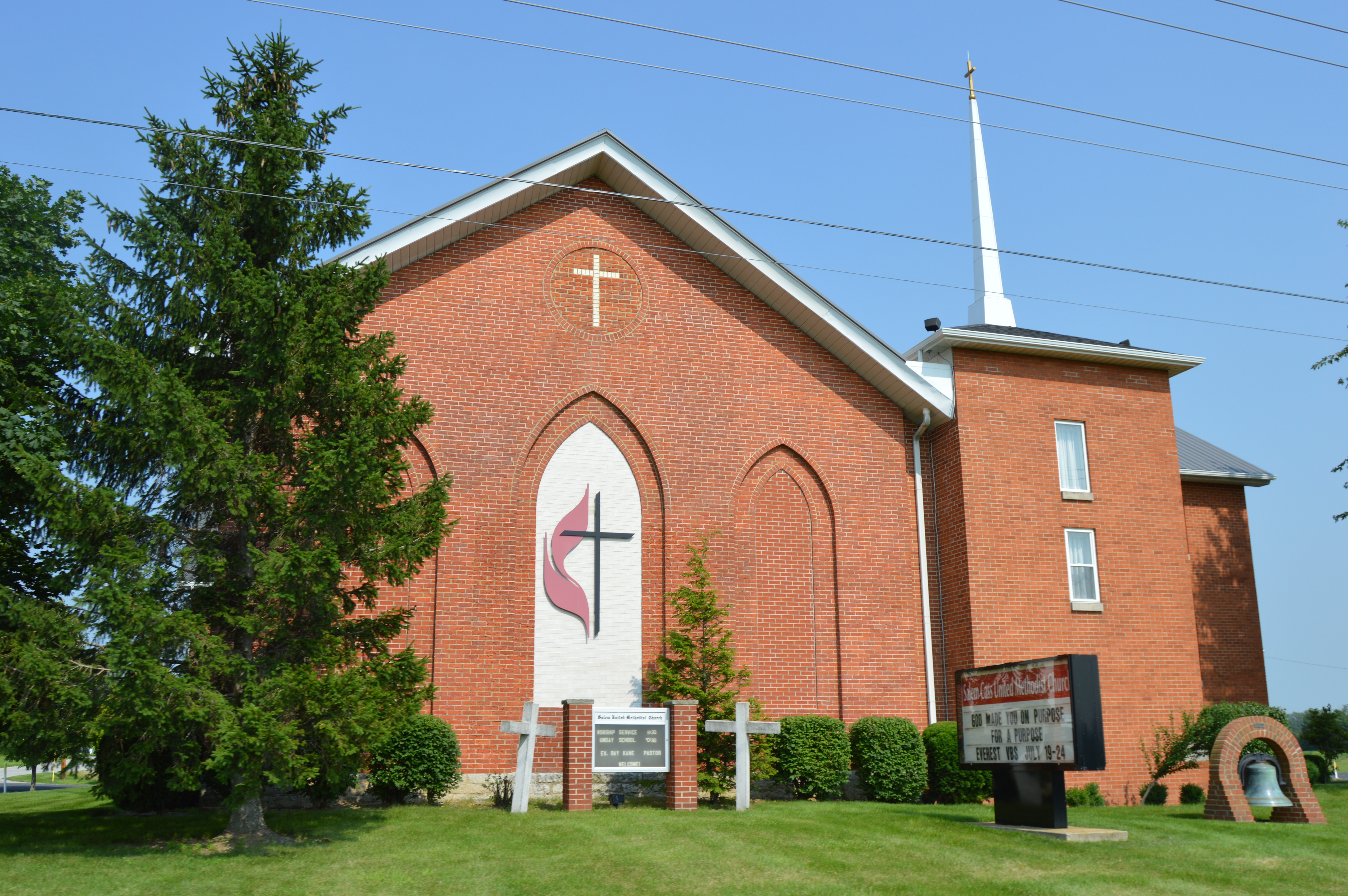 Front of the Salem Cass United Methodist Church, located at 4699 County Road 236 west of Arcadia in Cass Township, Hancock County, Ohio, United States. It was built in 1958.